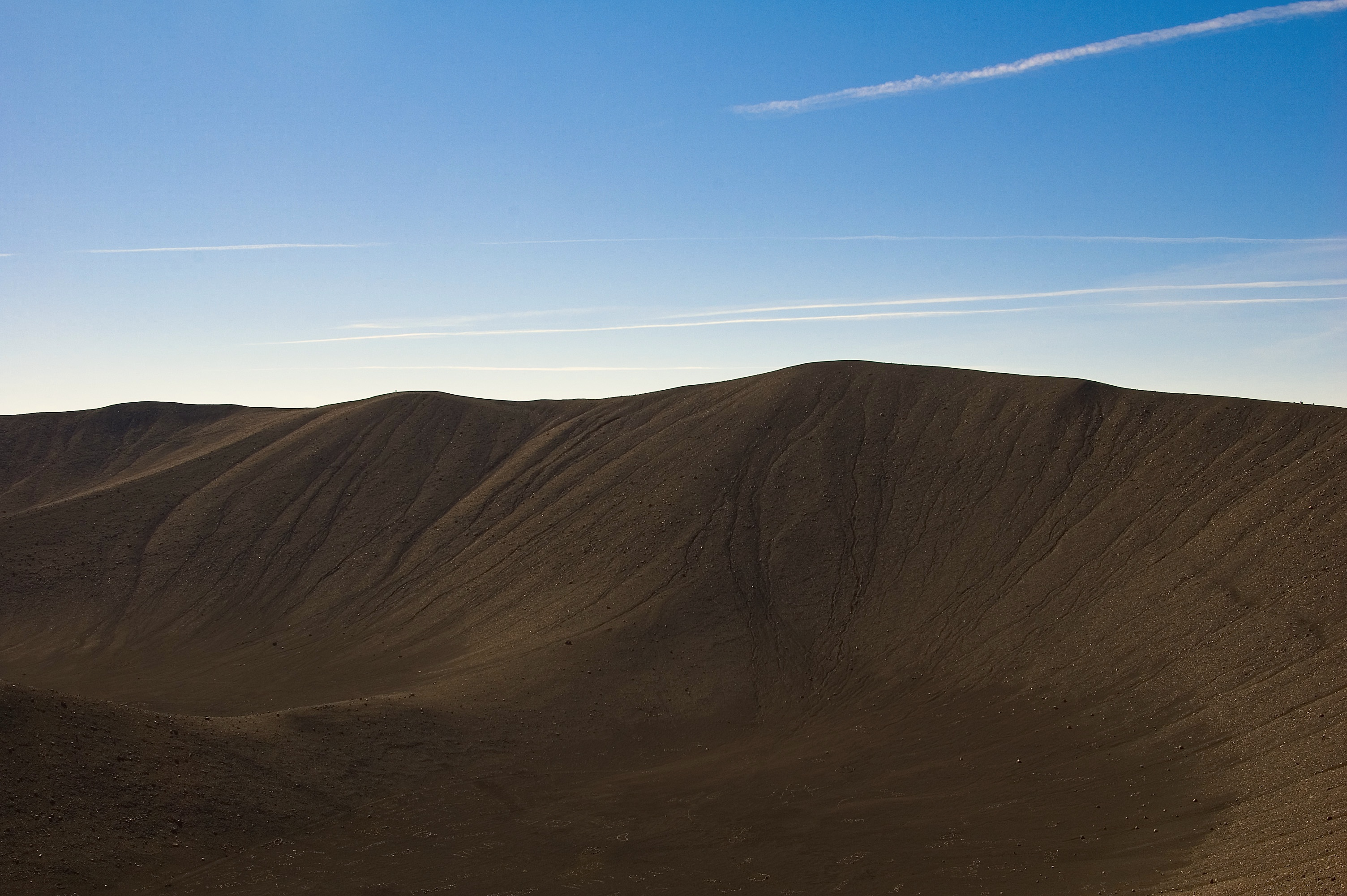 Inner rim of Hverfjall.